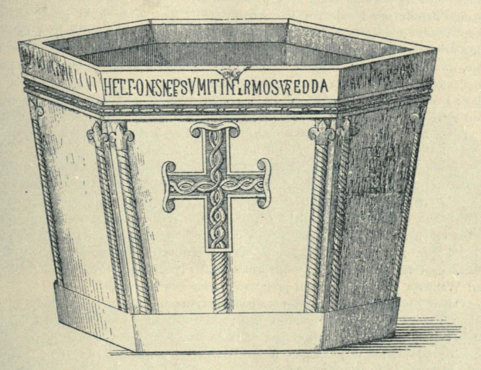 Baptistry of Visheslav. Source: Klaić Vjekoslav (1889). Povjest Hrvata : od najstarijih vremena do svretka XIX. Stoljeća. Zagreb, Knjižara Lav. Hartmana, pg 63.